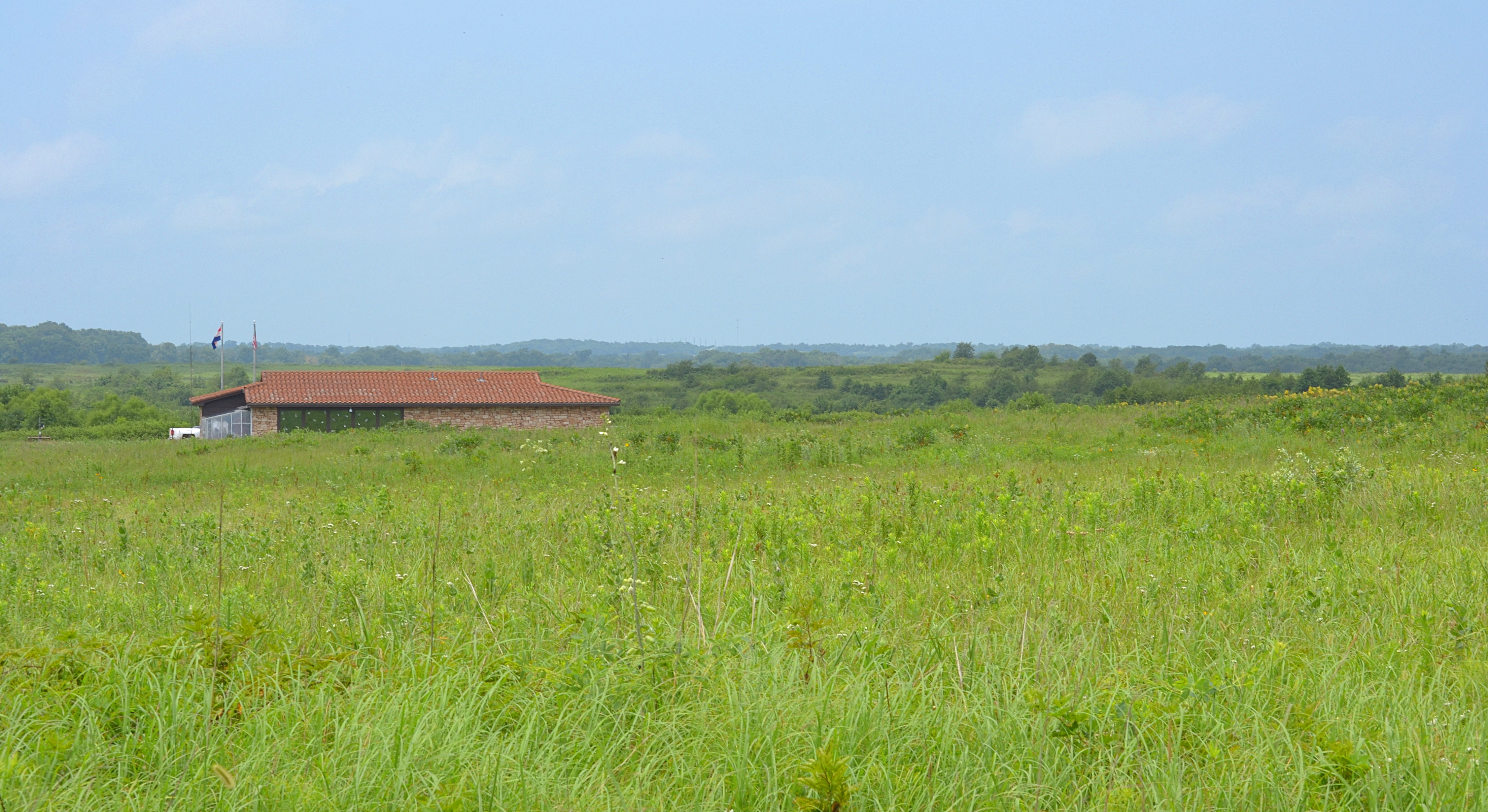 The back of the visitor center at Prairie State Park in Missouri.